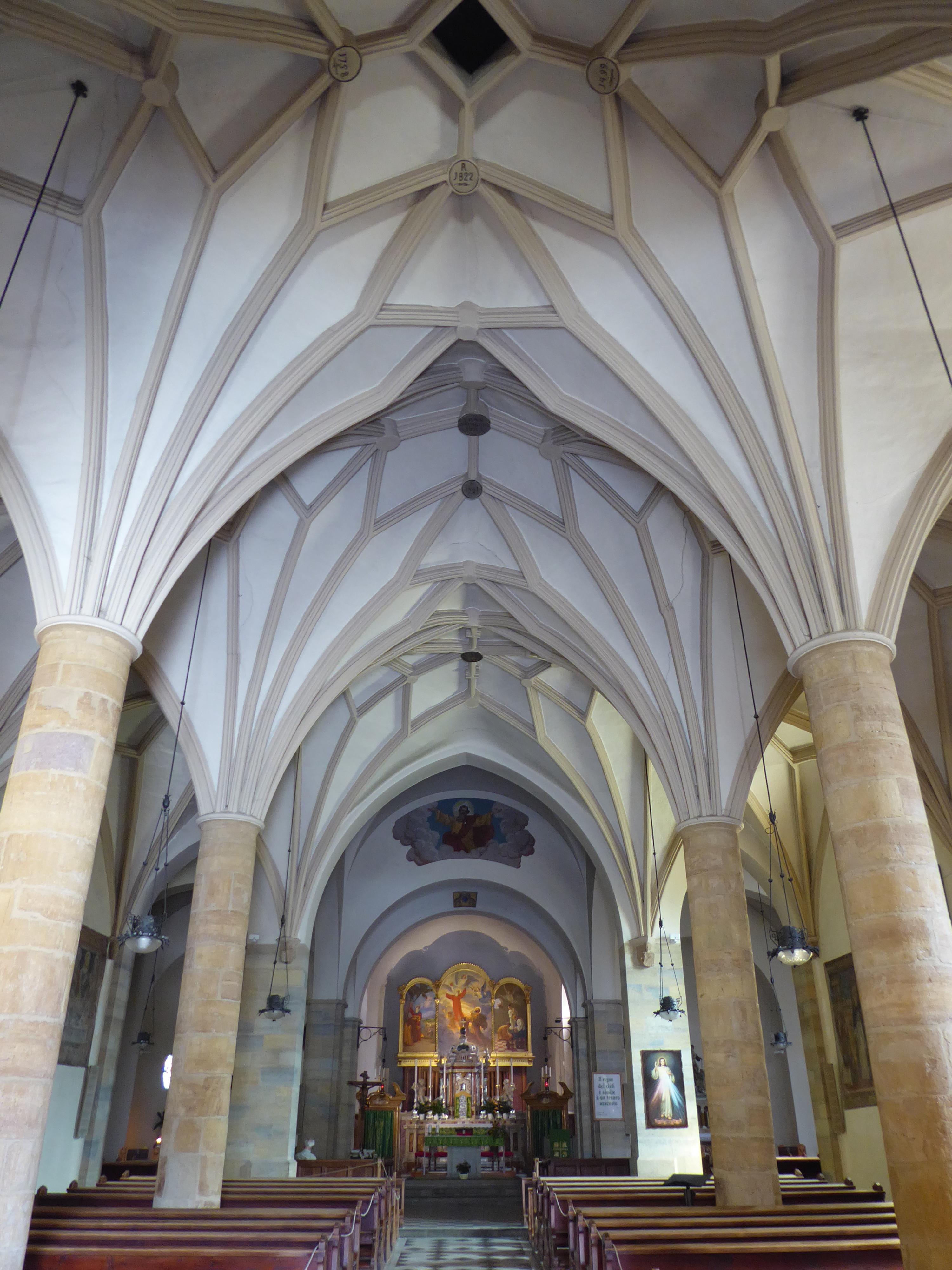 Tesero (Trentino, Italy), Saint Eliseus church - Interior